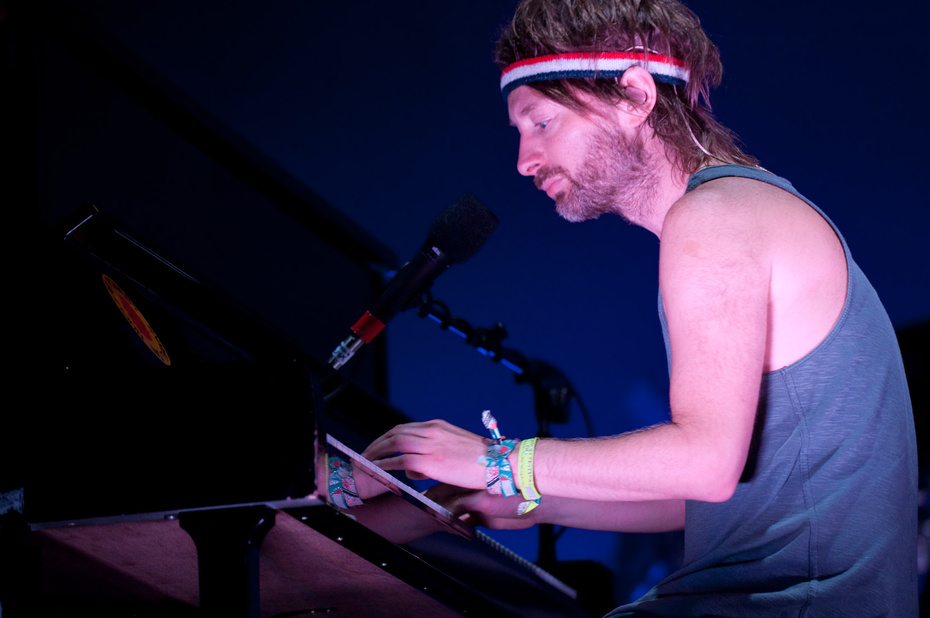 Thom Yorke performing with Atoms for Peace at the Fuji Rock Festival (2010)